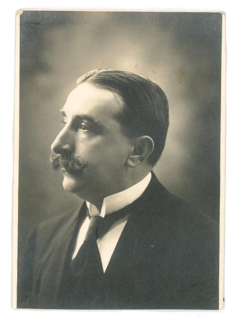 Julián Bourdeu (1870-1932), Justice of the Peace, journalist, Commissary of the former Policía de la Capital (Buenos Aires city, Republic of Argentina) and an industrious neighbor of that city.